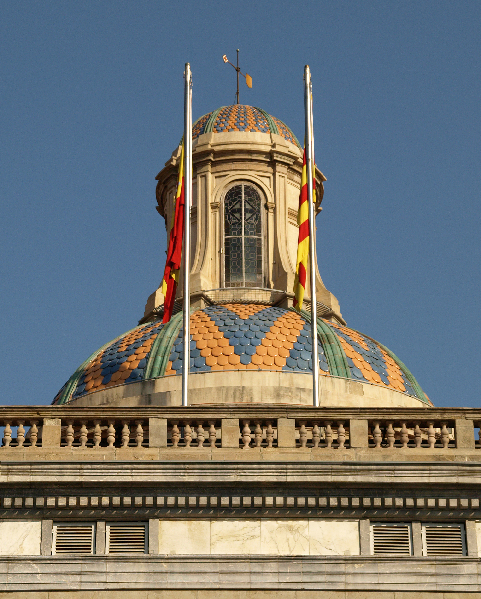 The Palau de la Generalitat de Catalunya houses the offices of the Presidency of the Generalitat de Catalunya. It is one of the few buildings of mediaeval origin in Europe that still functions as a seat of government and houses the institution that originally built it. It is located in the Gothic Quarter of Catalonia's capital, the city of Barcelona.